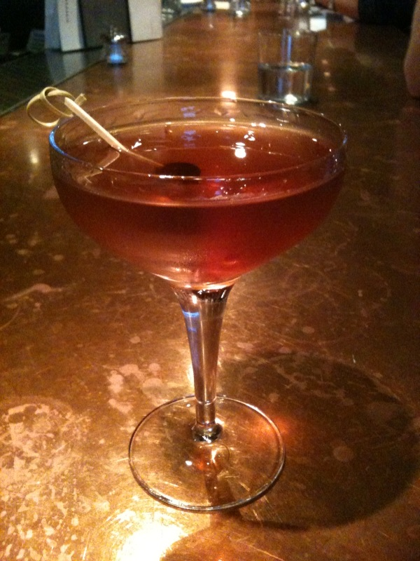 A Manhattan.